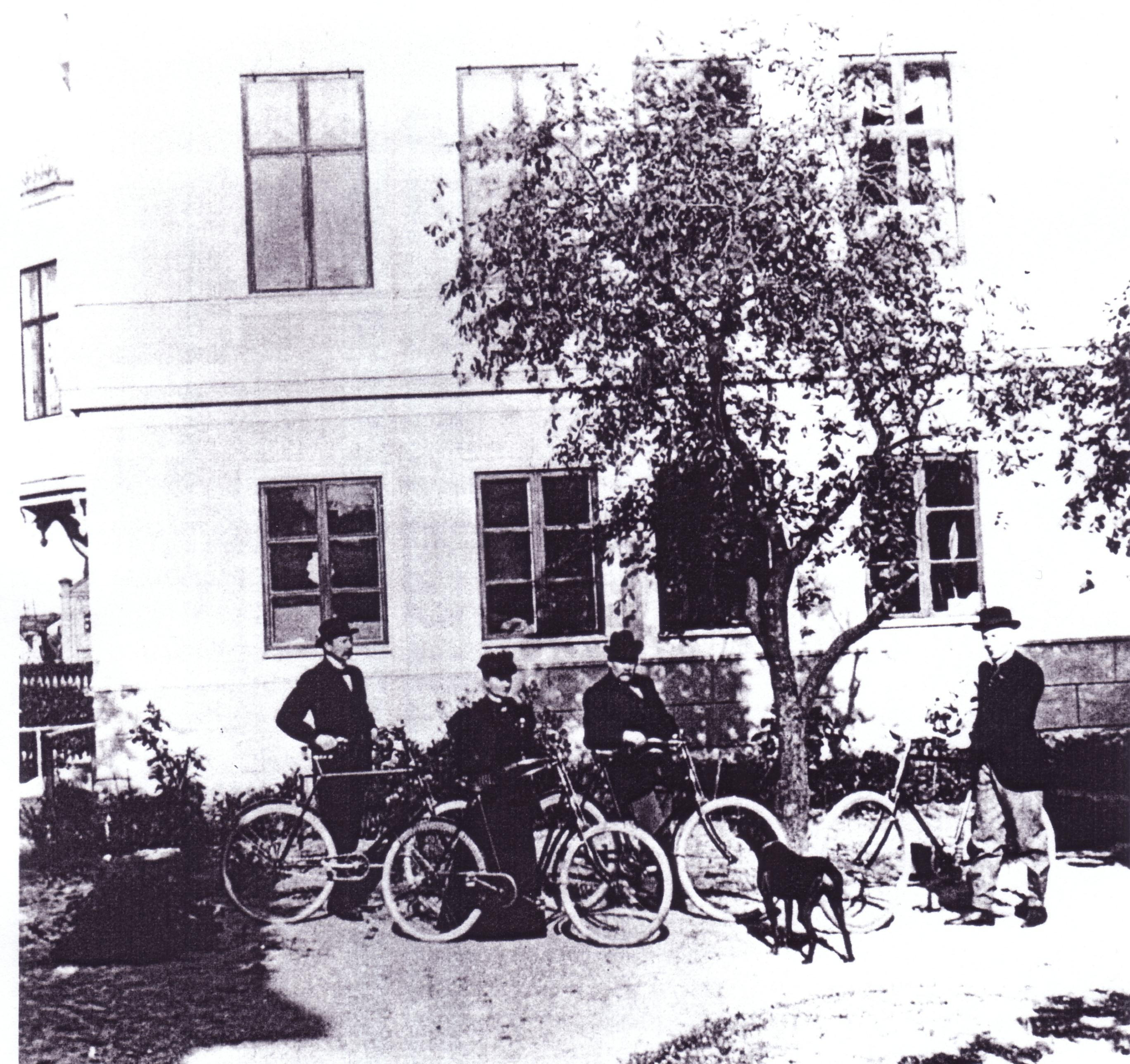 The factory owner Alfred Hahn (1841-1920), Örebro, with his family at the yard of his house Engelbrektsgatan 24, Örebro, in 1897.